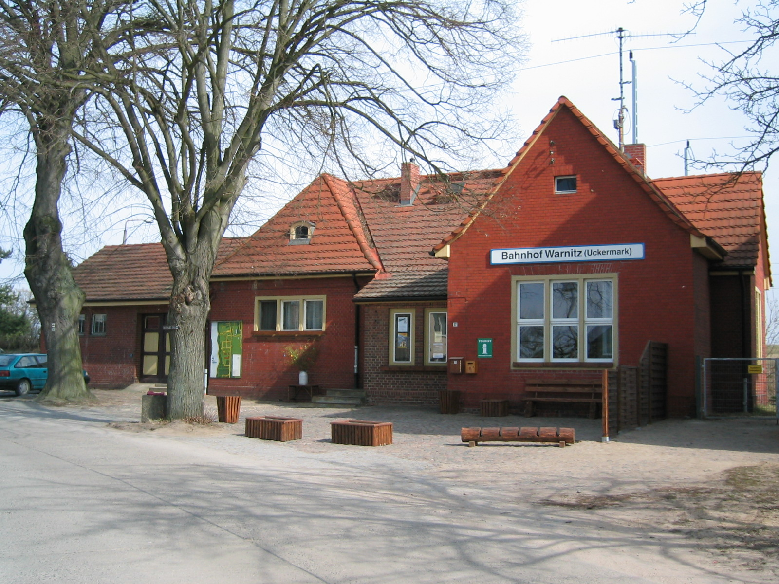 railway station and tourist's information in Warnitz (Uckermark), Germany